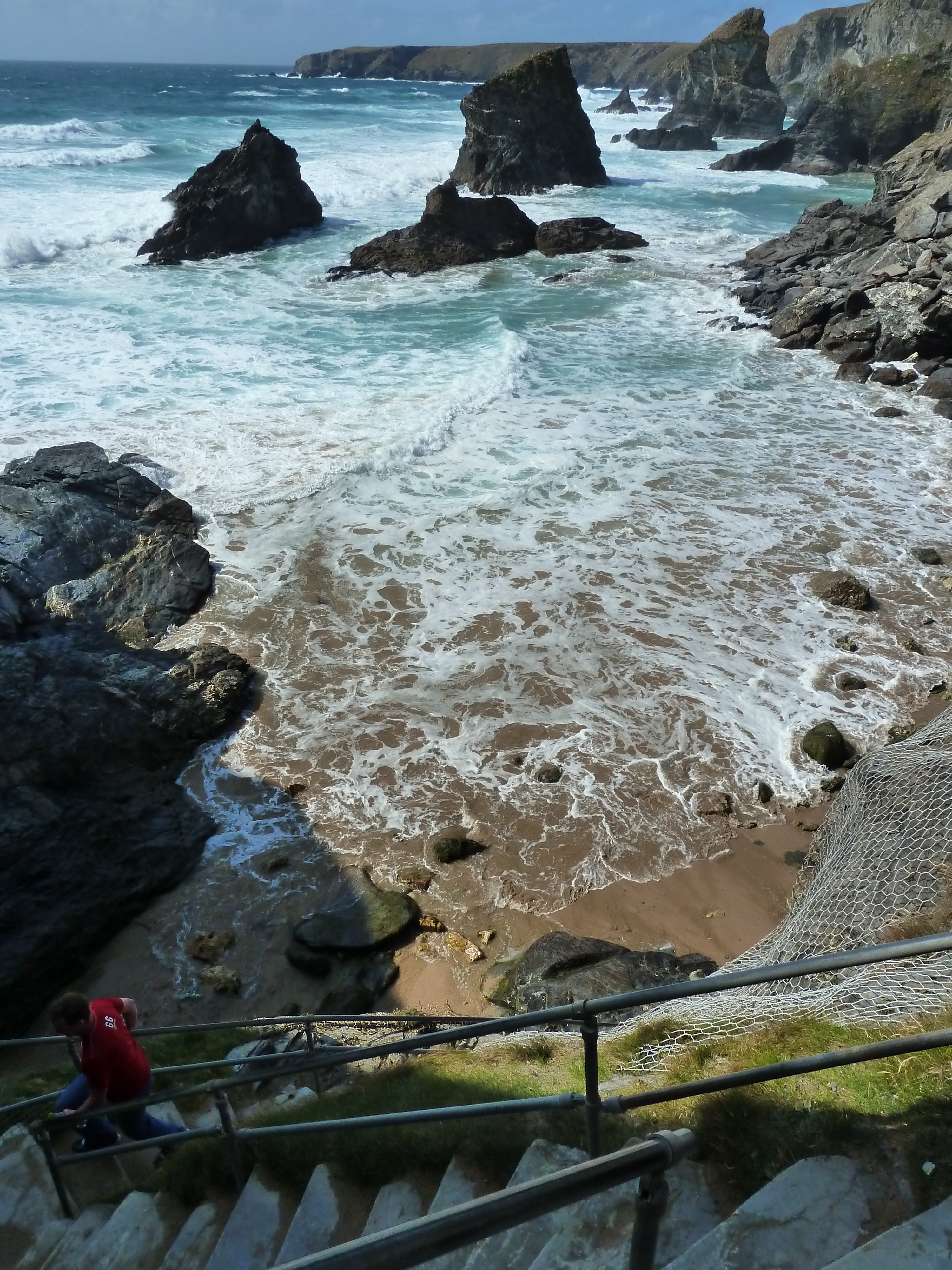 View of the Bedruthan Steps, to give view of how steep it is